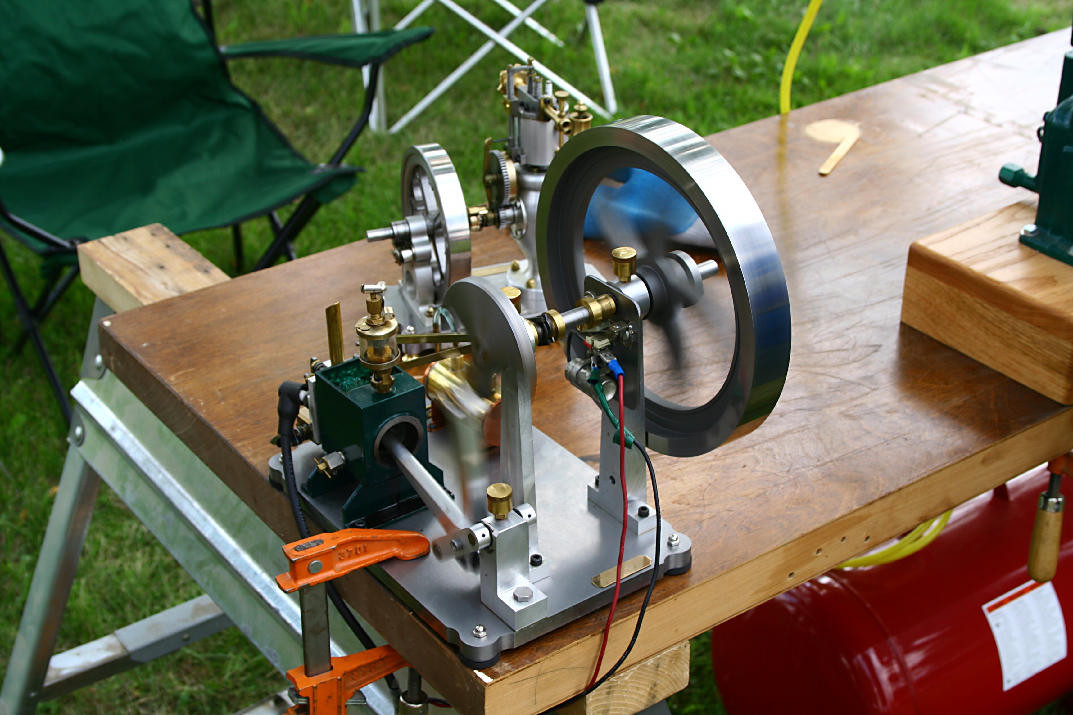 This is an Atkinson-cycle engine, though in this modern world, it has become a bit confusing about what that actually means. This is a working example of one that uses actual Atkinson-style linkages. The path of motion energy transfer is a bit convoluted, resulting in a wheel that turns once for every two cycles of the piston (it's a four-stroke engine, so you end up with one revolution per combustion/exhaust cycle). My understanding is that the strange linkages came about because Mr. Atkinson wanted to find a way around the patents on engines of the day so that he could make his own engines without paying royalties. Anyway, a side-effect of the layout is that the piston travels slightly different lengths during the compression/combustion strokes as it does for the exhaust/intake strokes (at least in certain designs), which apparently makes it slightly more efficient. The engine in the Toyota Prius makes use of a regular modern engine but with slightly modified valve timing to simulate this effect and save on fuel (though there's a cost in terms of torque and/or horsepower), so it's often called an "Atkinson-cycle engine" even though it doesn't have the funky energy transmission path.